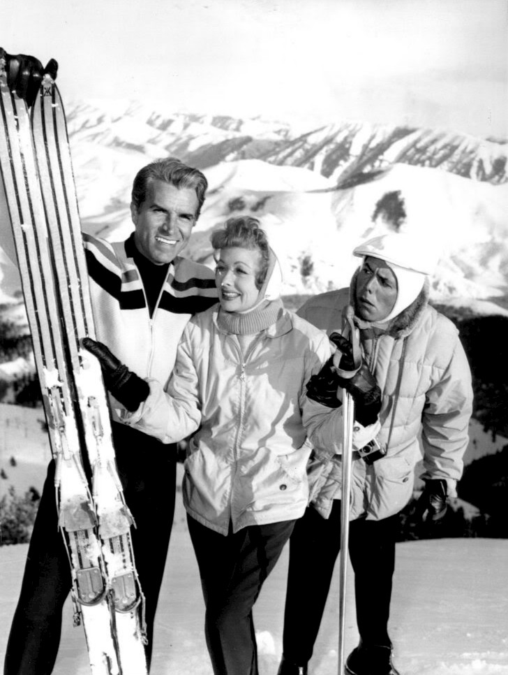 Photo of Fernando Lamas, Lucille Ball and Desi Arnaz. The plot for the episode "Lucy Goes To Sun Valley" is that Lucy and Ethel go to Sun Valley without Ricky and Fred. When the men join them there, they are jealous because their wives have met the film star, Fernando Lamas. Ricky is upset at the attention Lucy is getting from Lamas. The episode originally aired April 14, 1958. CBS rebroadcast this as part of The Lucy-Desi Comedy Hour.